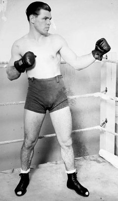 "Full-length portrait of pugilist Mickey Walker standing in profile in a boxing stance in boxing ring in a room in Chicago, Illinois."